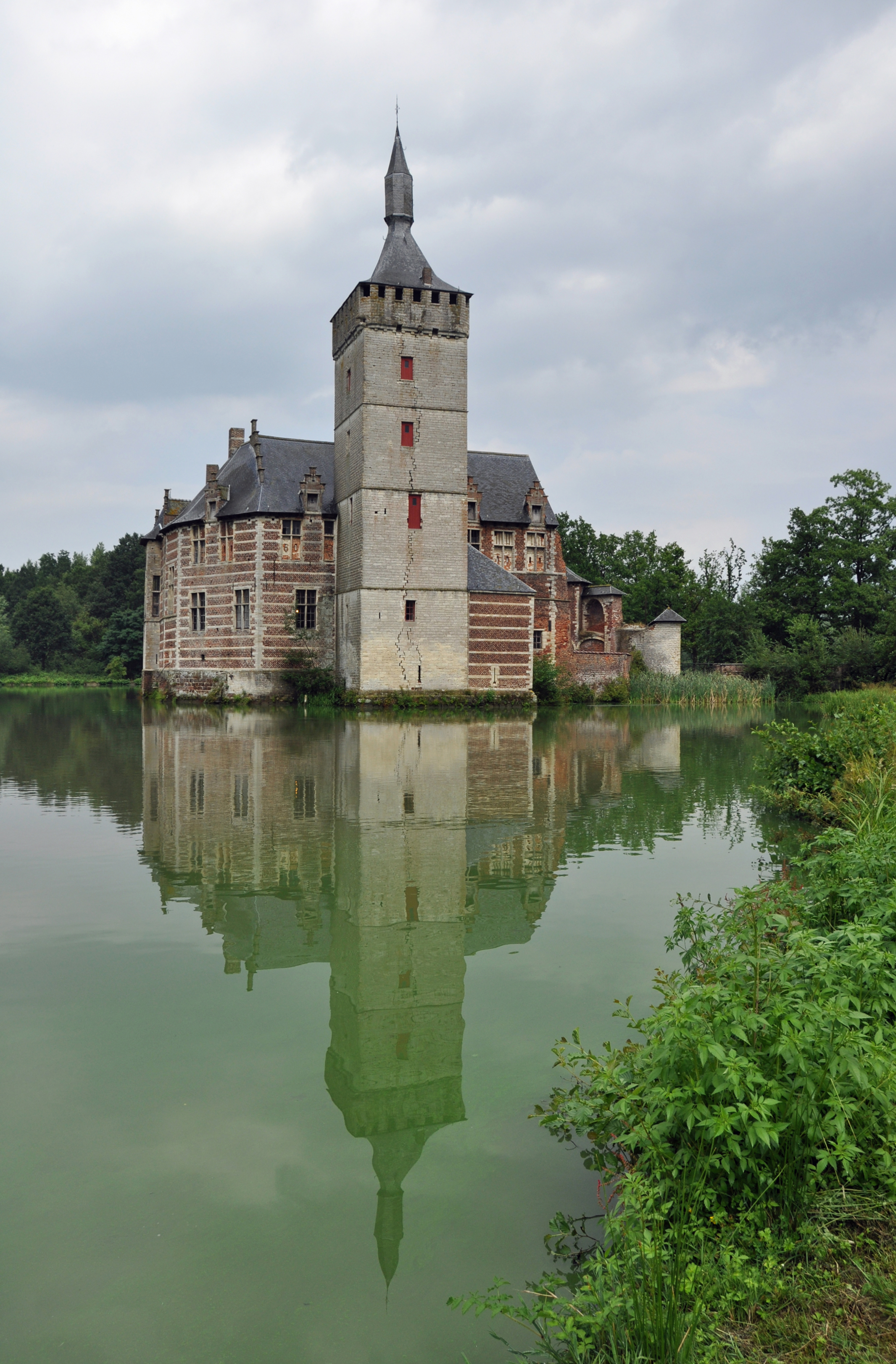 Sint-Pieters-Rode (municipality of Holsbeek, Belgium): Horst castle